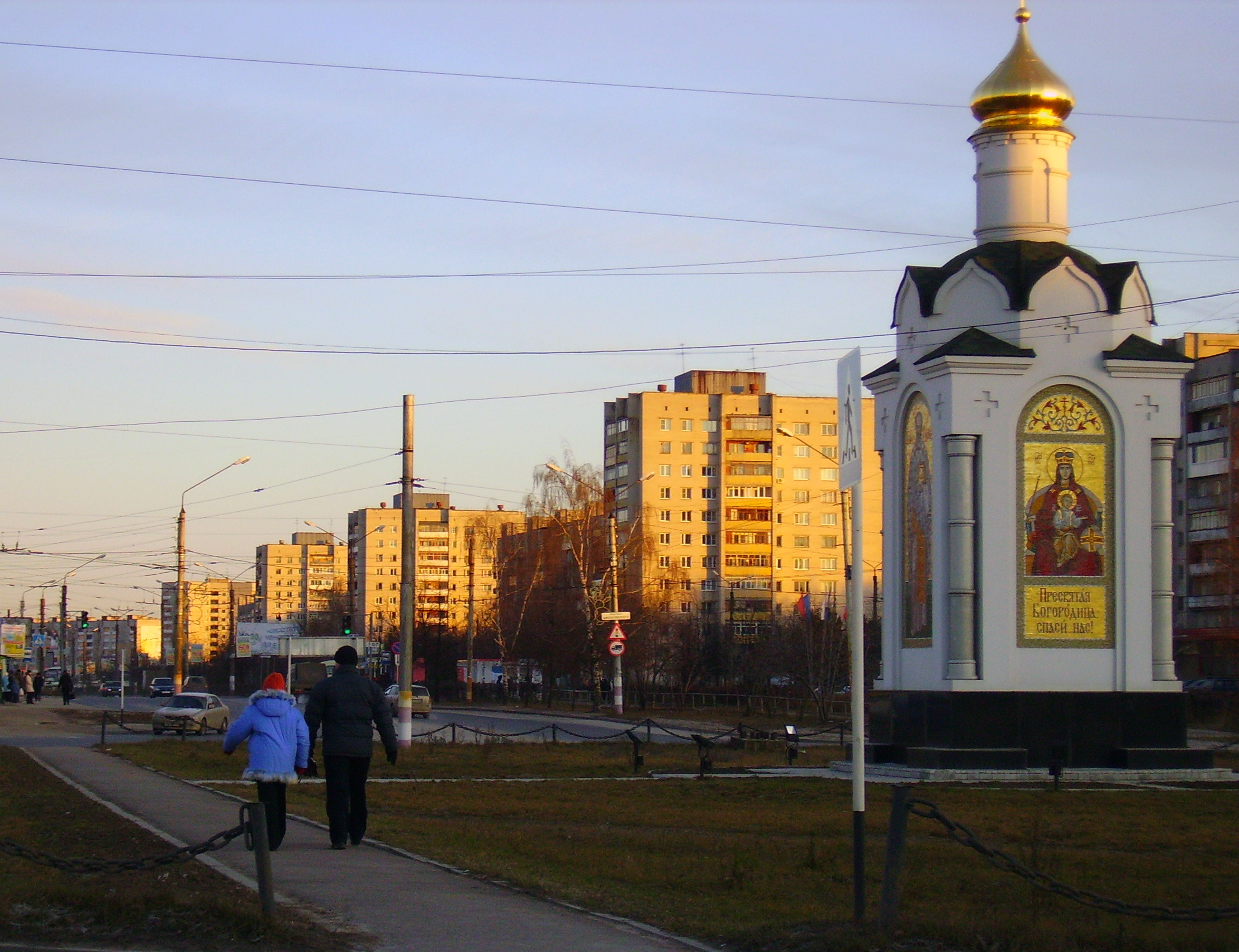 Tsiolkovsky Avenue